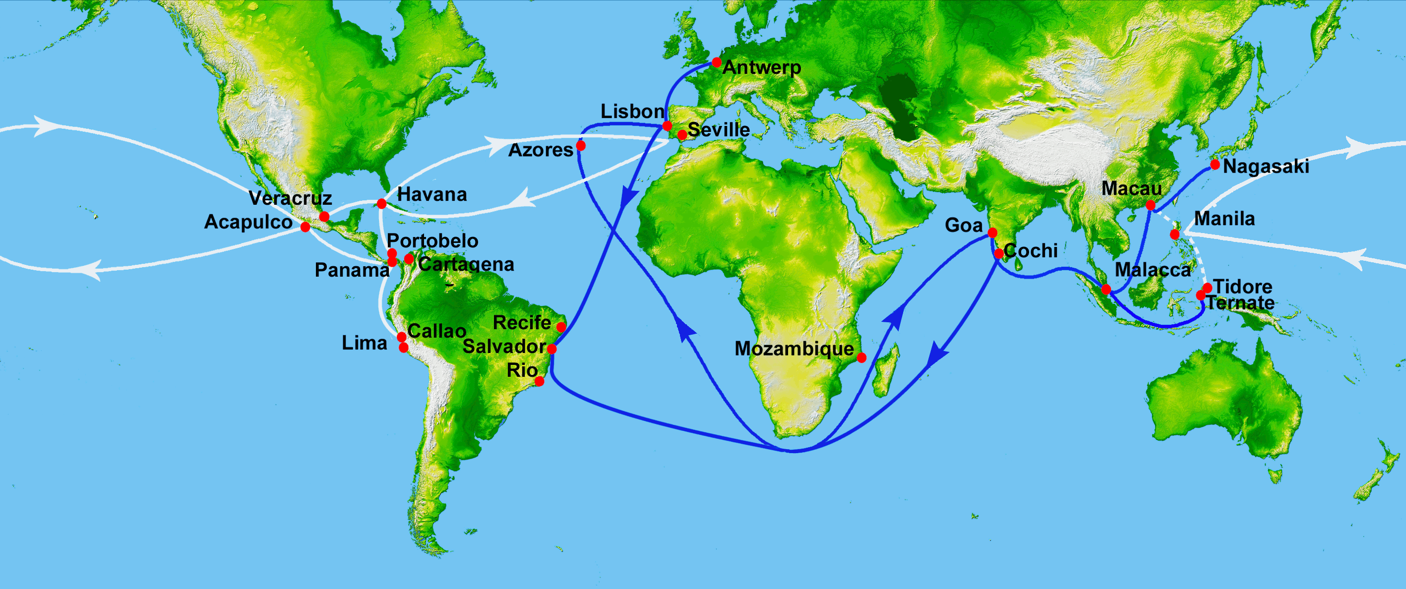 Map showing main Portuguese (blue) and Spanish (white) oceanic trade routes in the 16th century, as a result of the exploration during the Age of Discovery. Showing the Spanish colonial Manila-Acapulco Galleons route (1565-1815) between the Viceroyalty of New Spain (México) and the Spanish East Indies (Philippines), using the ports of Acapulco and Cavite. PIA03395: World in Mercator Projection, Shaded Relief and Colored Height